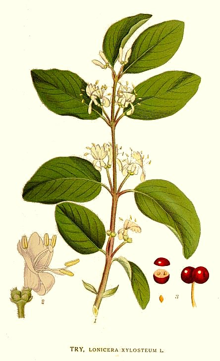 Original Description Try, Lonicera xylosteum L.